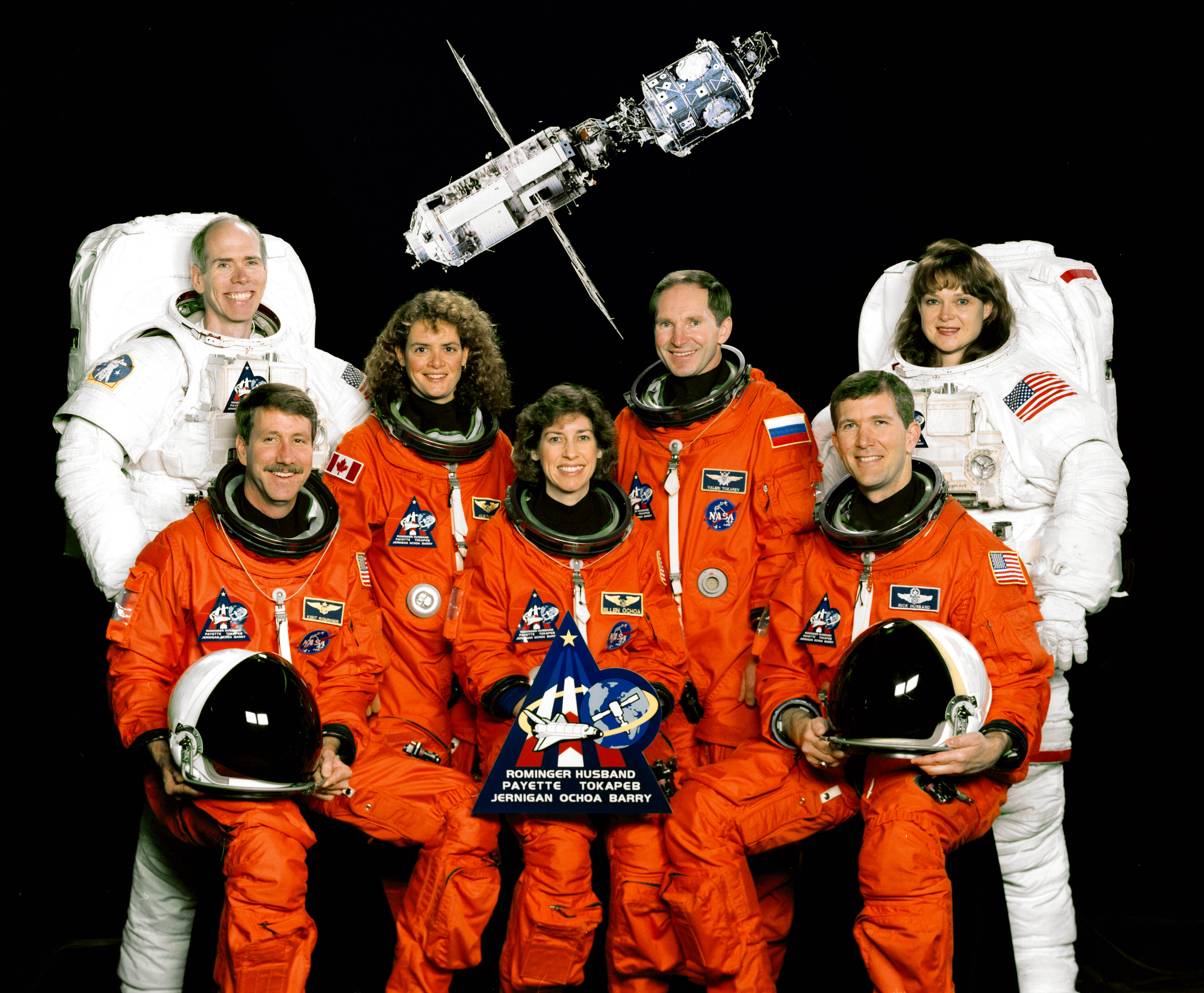 Six NASA astronauts and a Russian cosmonaut take a break from training to pose for the STS-96 crew portrait. Astronaut Kent V. Rominger, mission commander, is at left on the front row. Astronaut Rick D. Husband, right, is pilot. The mission specialists are Ellen Ochoa (front center) and, from the left on the back row, Daniel T. Barry, Julie Payette, Valeriy I. Tokarev and Tamara Jernigan. Payette represents the Canadian Space Agency (CSA) and Tokarev is with the Russian Space Agency (RSA). The crew will perform the first station docking and will become the first visitors to the new International Space Station since its launch and start of orbital assembly last year. Discovery's launch date is now scheduled for May 20.